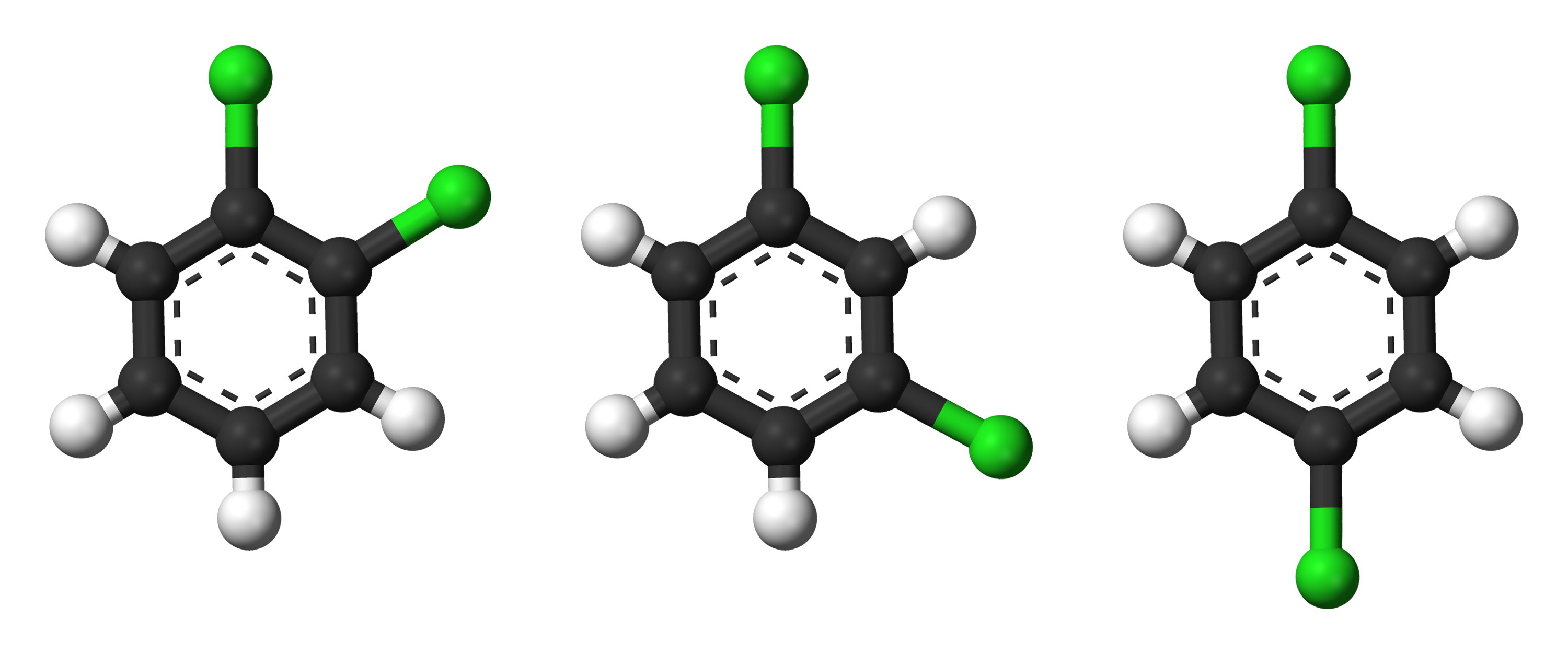 Ball-and-stick models of the three isomers of dichlorobenzene.